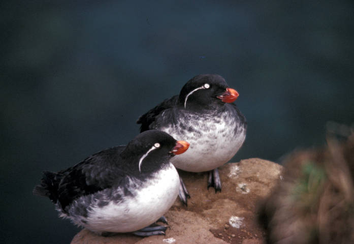 Two Parakeet Auklets at Alaska Maritime National Wildlife Refuge, Alaska, USA.